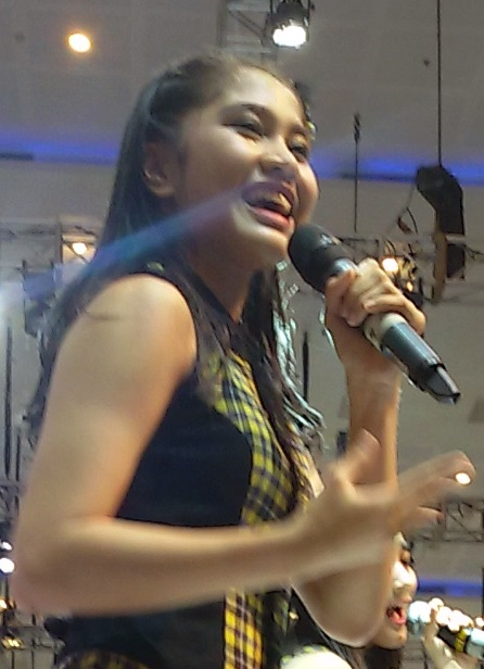 Alicia Chanzia Ayu Kumaseh, current member of JKT48 and former child actress.